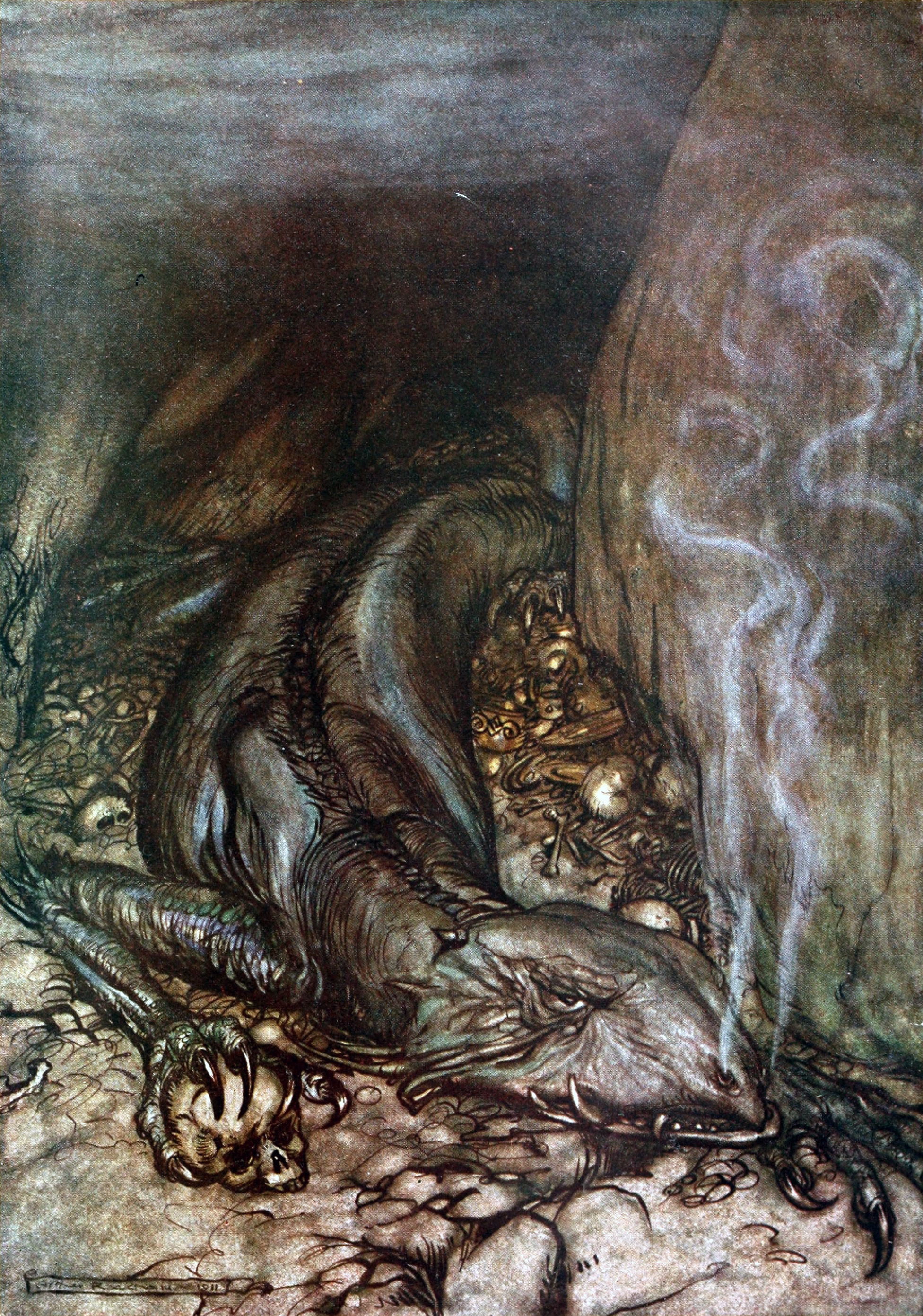 "In dragon's form Fafner now watches the hoard."